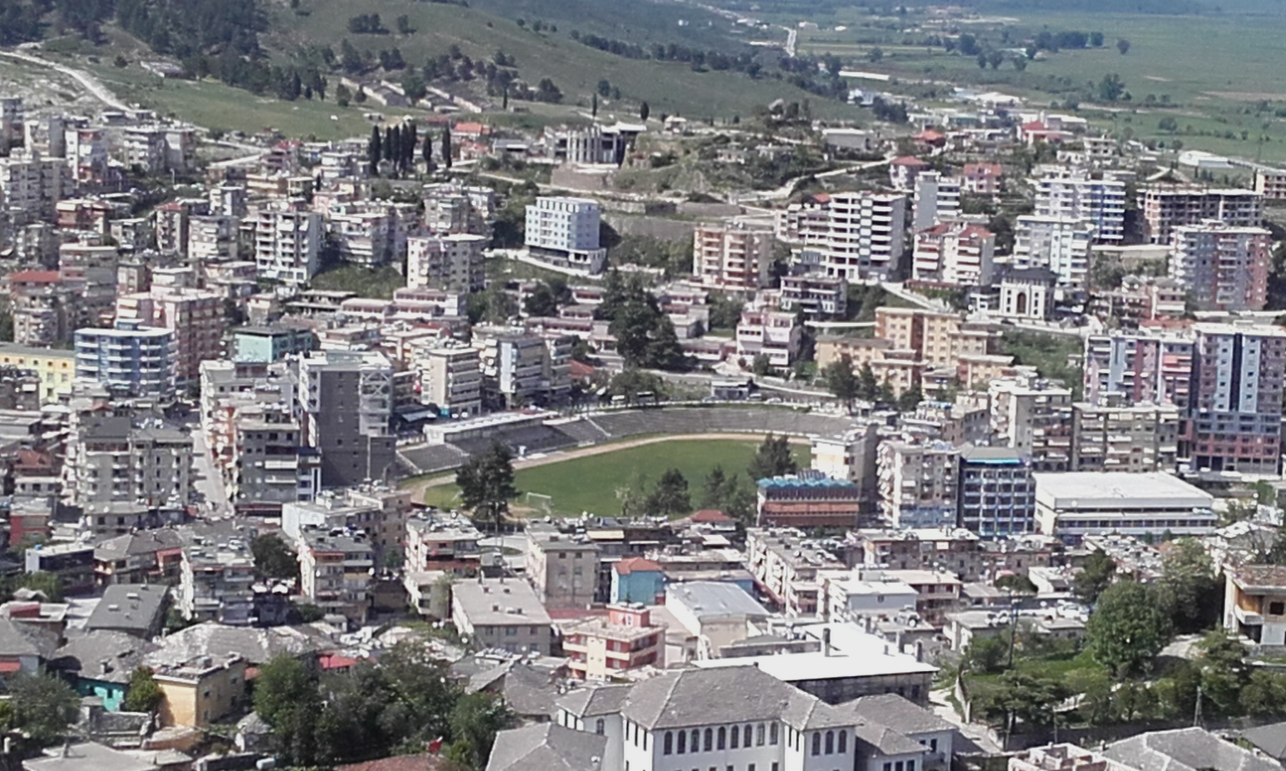 Location: Gjirokaster city Castle